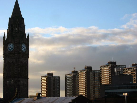 The tower of Rochdale Town Hall (left) with the "Seven Sisters" tower-blocks behind. All landmarks in Rochdale, Greater Manchester, England.